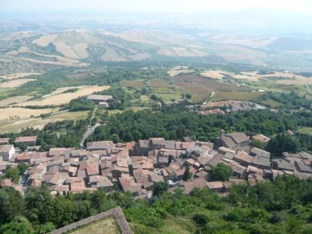 The Tuscan town of Radicofani seen from Rocca.